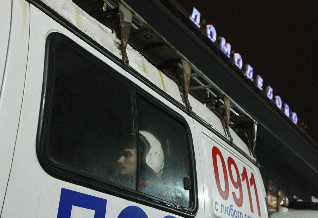 “Blast hits Domodedovo airport”. EMERCOM rescuer having a rest.